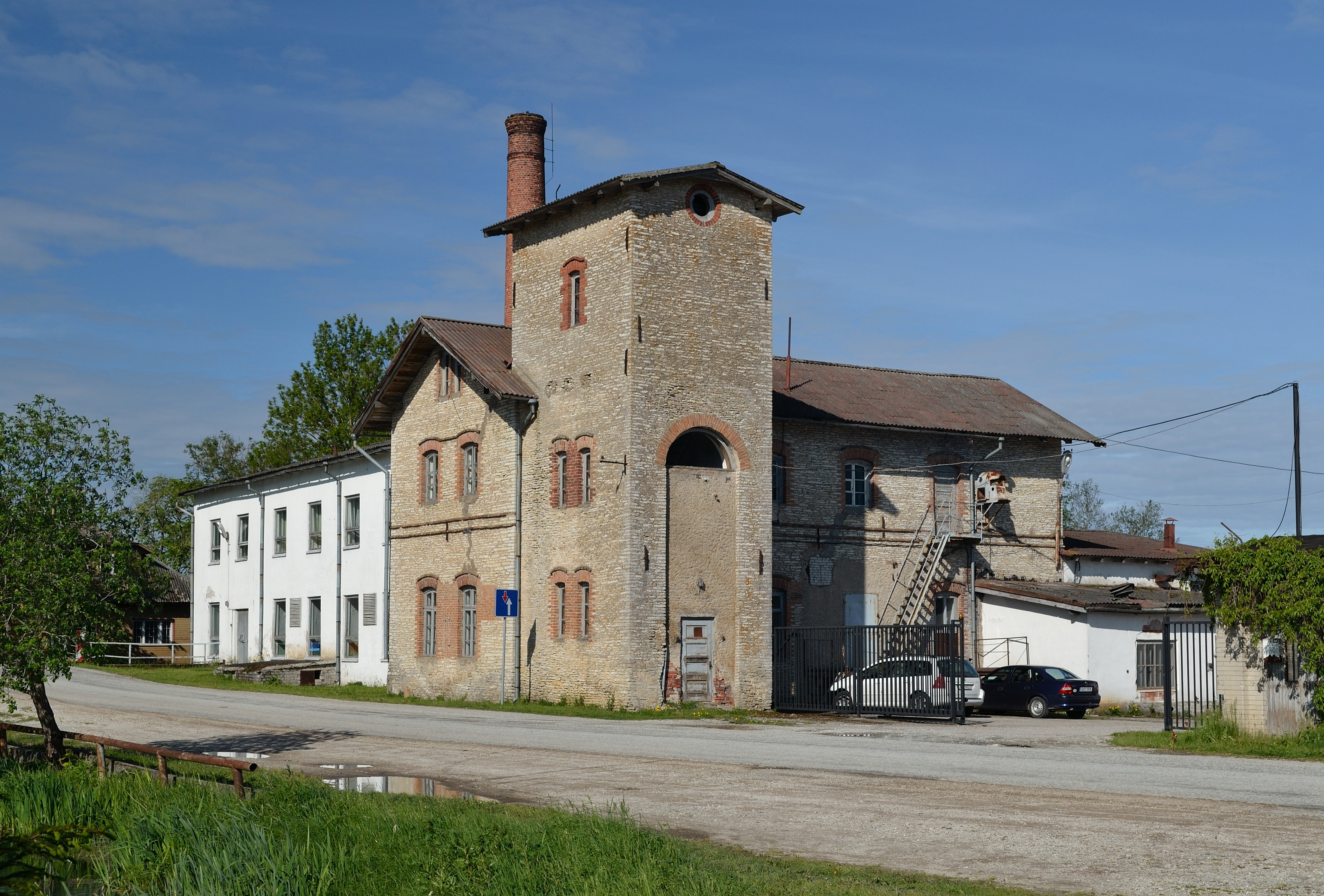 Undla manor distillery